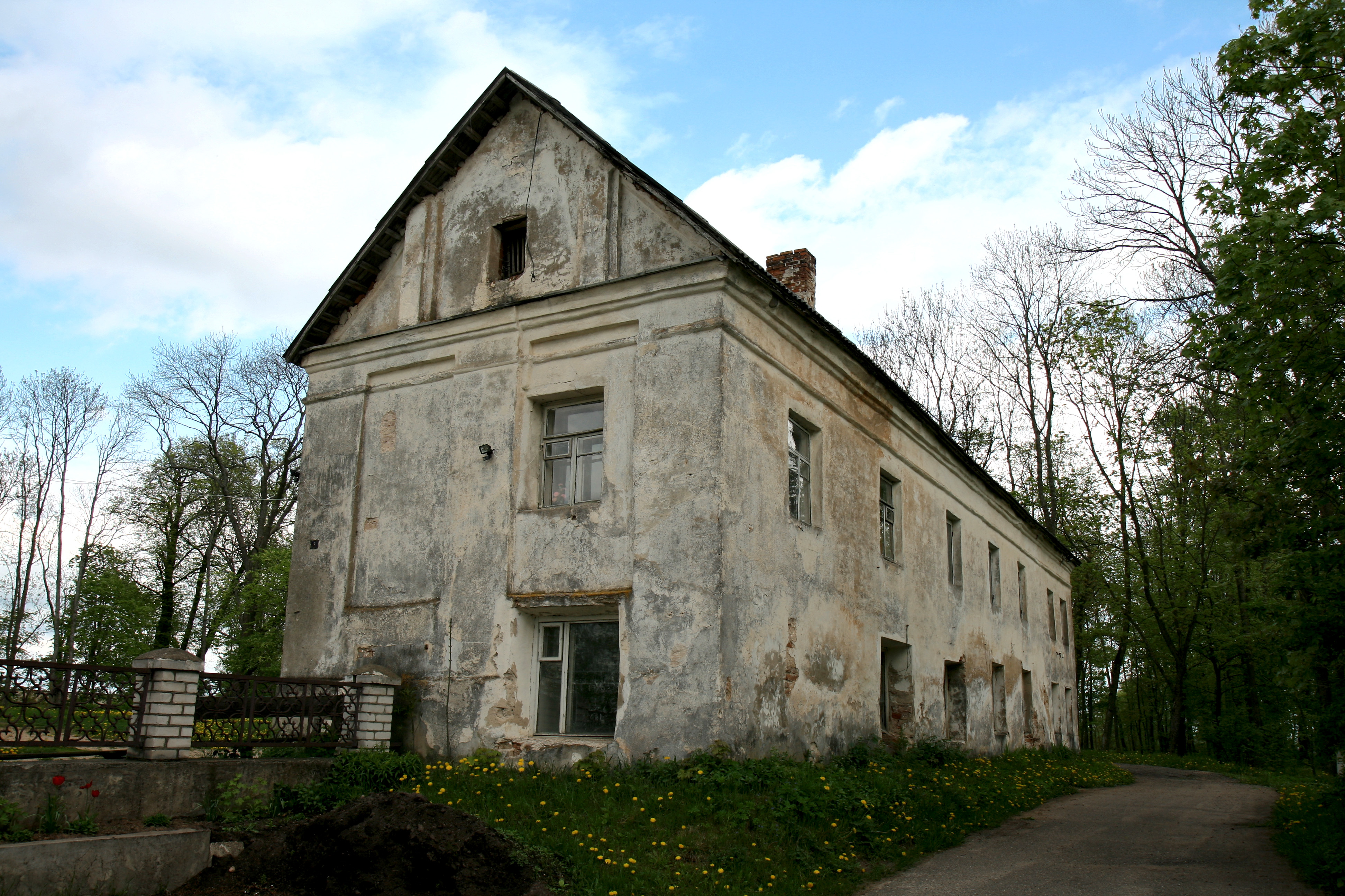 Rectory in Miadzieł near the Miadzieł's Roman Catholic church of 18th century. Taken in May 2008.